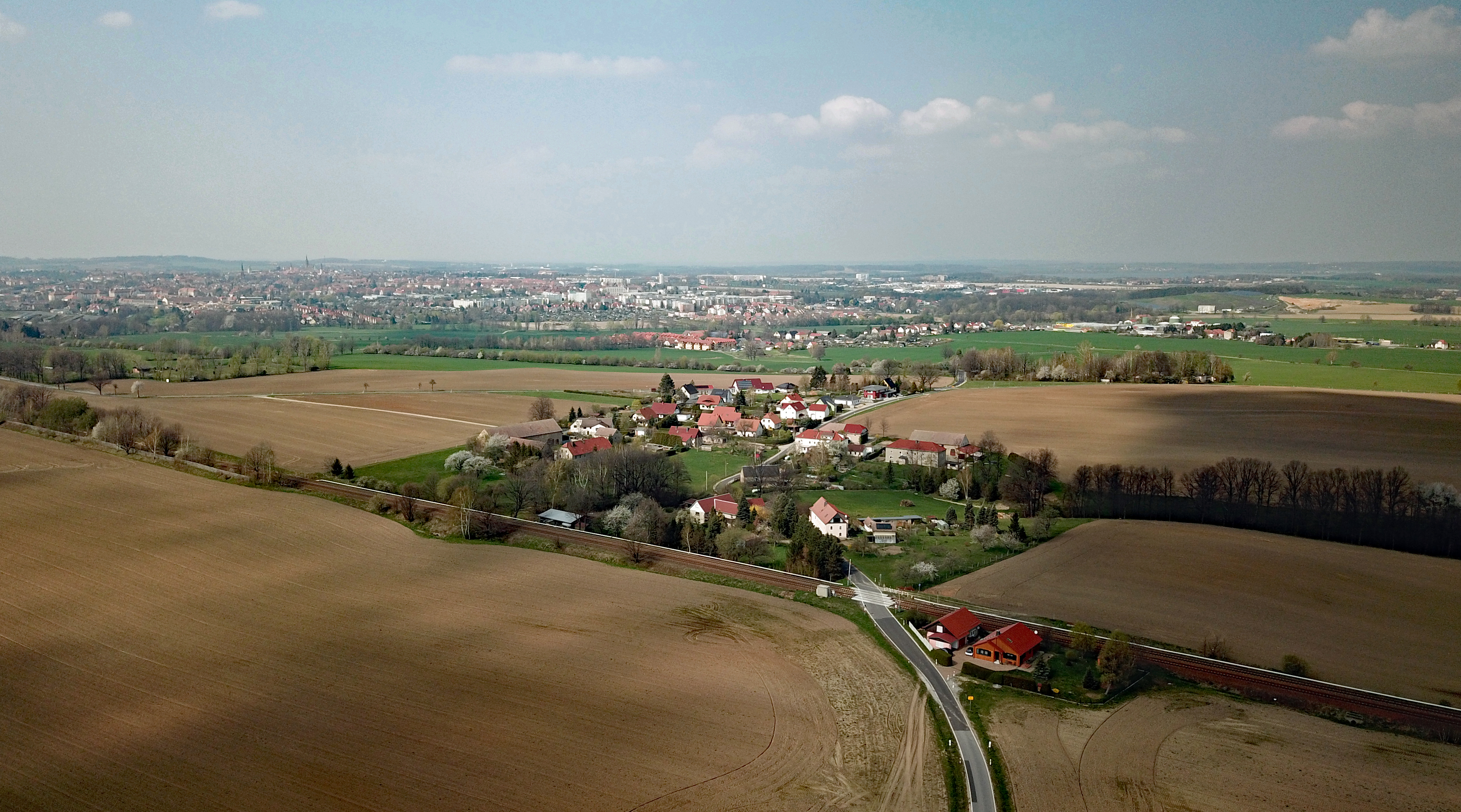 Rabitz (Kubschütz, Saxony, Germany) Hornjoserbsce: Powětrowy wobraz Raboc z Budyšinom w pozadku Dieses Foto wurde mit einem Quadcopter innerhalb der RMZ des Flugplatzes EDAB aufgenommen. Der Flugleiter wurde am Aufnahmetag telephonisch über Ort und Zeit informiert und hat zugestimmt. Der Flug erfolgte auf Grundlage der Allgemeinverfügung der Landesdirektion Sachsen zur Erteilung der Betriebserlaubnis für unbemannte Luftfahrtsysteme und Flugmodelle gemäß § 21a LuftVO und Zulassung von Ausnahmen von Betriebsverboten gemäß § 21b LuftVO für den Freistaat Sachsen.